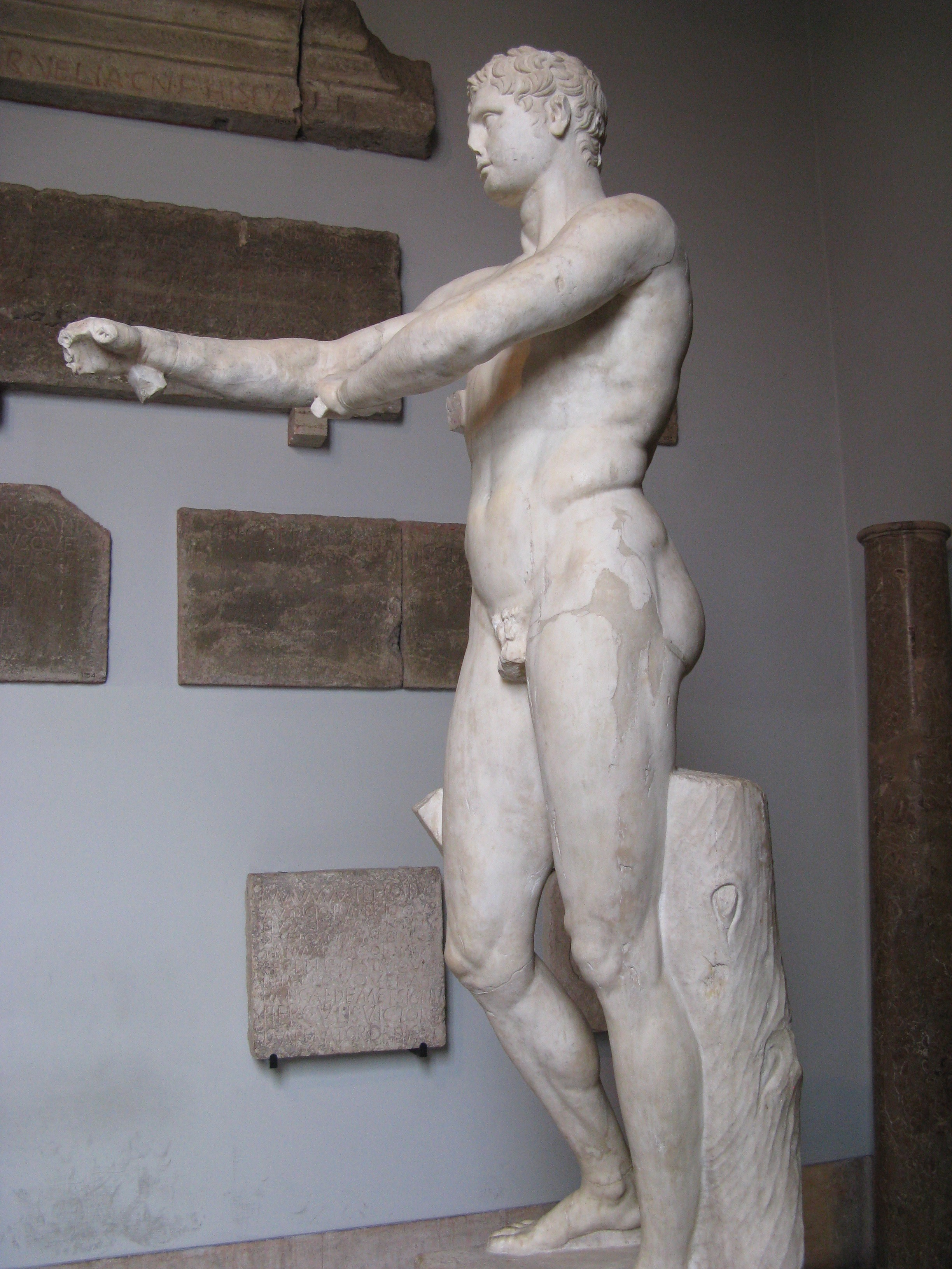 Apoxyomenos